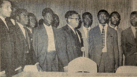 Joseph Kasa-Vubu at the swearing-in ceremony for Mobutu's appointed "College of Commissioners". Marcel Lihau is standing to his left.